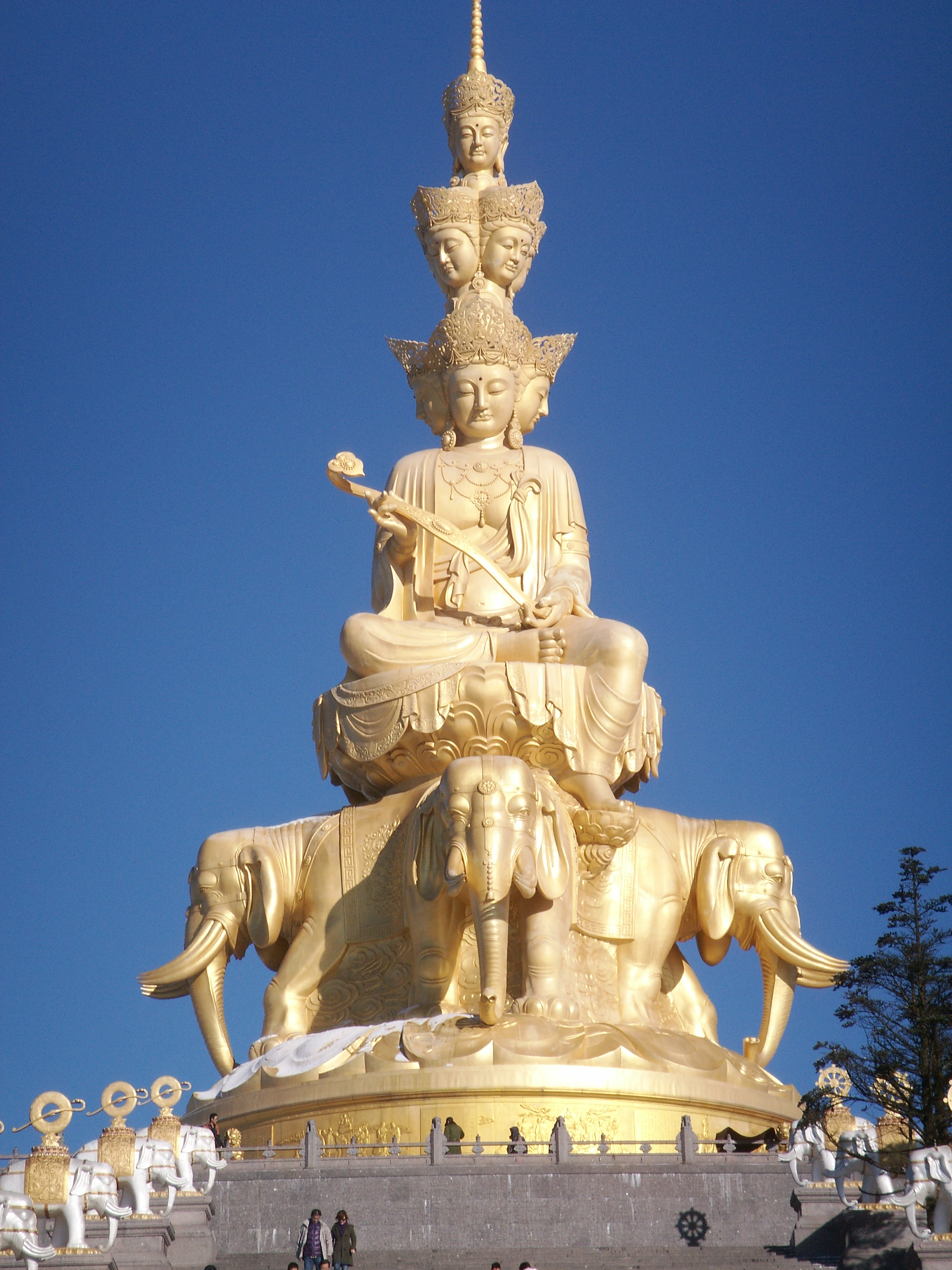 Mount Emei in Sichuan Western China